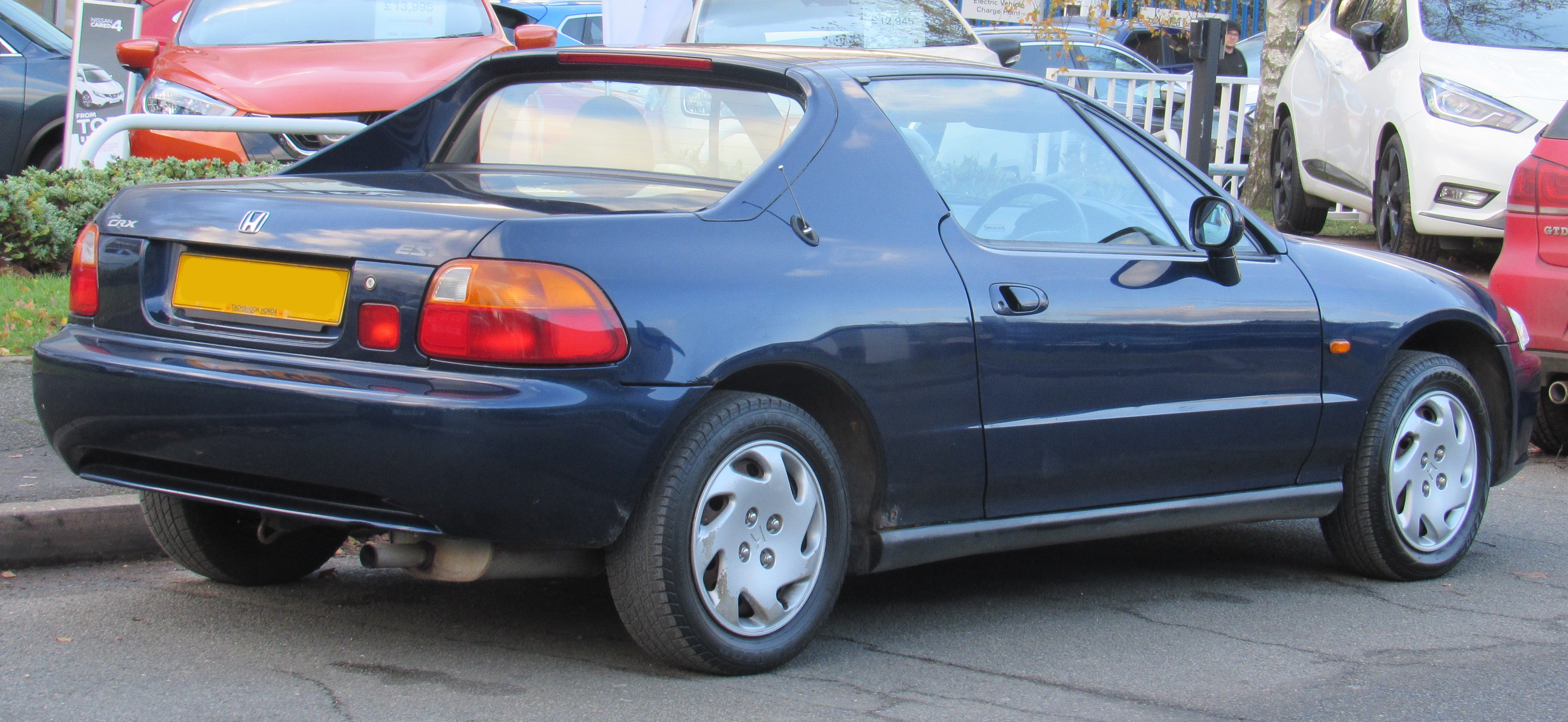 1997 Honda Civic CR-X ESi 1.6 Rear (I seen ones saying CR-X Del Sol and heard of Civic Del Sol but I never seen a Civic CR-X as late as this, I thought the Civic name dropped early in Europe production) Taken in Leamington Spa